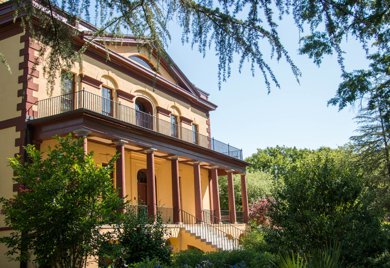 The Hampton-Preston Mansion on its 200th anniversary.